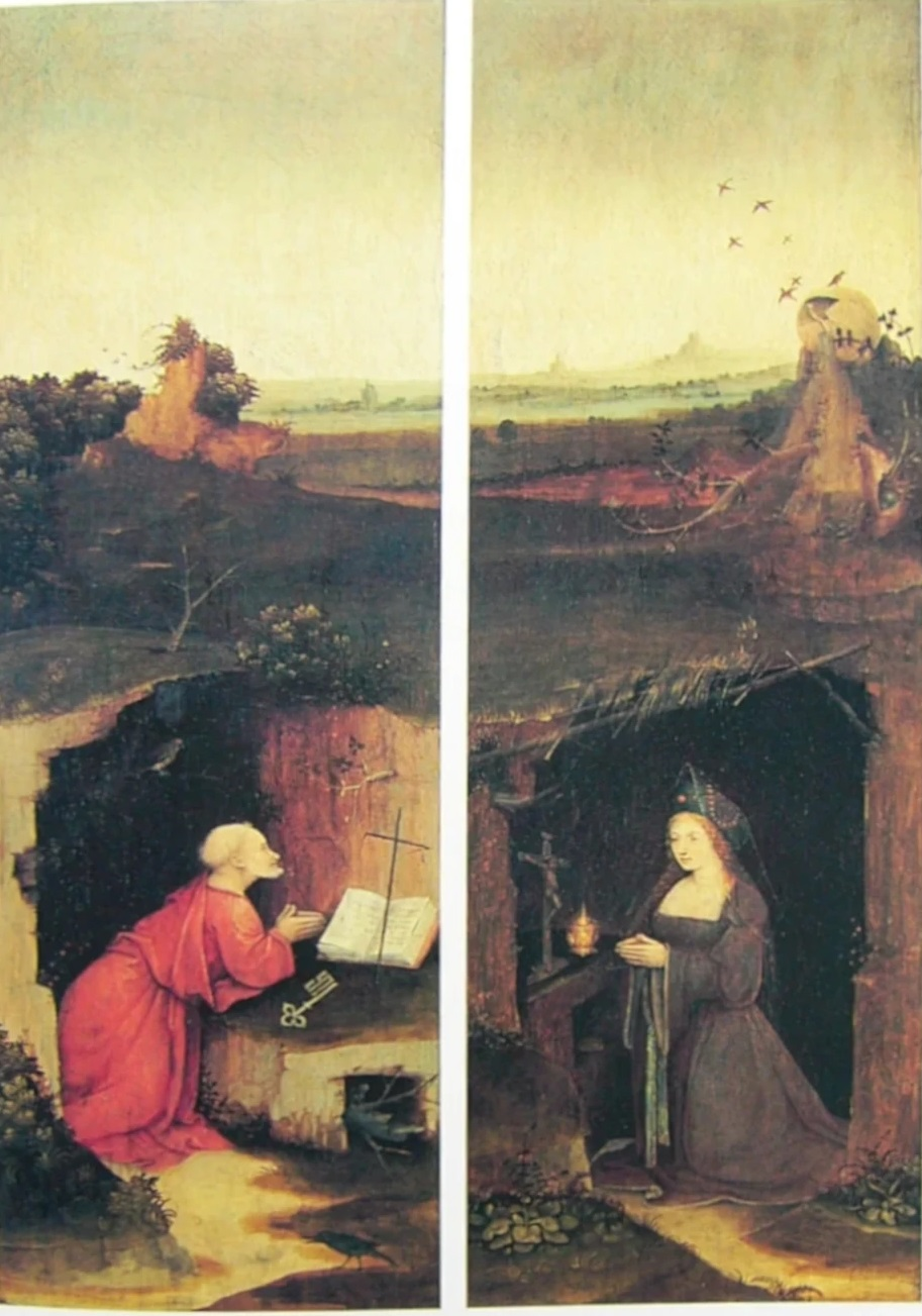 Formerly attributed to Hieronymus Bosch Medium oil on wood panel Dimensions Each, Height: 80.5 cm. Width: 26 cm . Current location Erasmus House, Anderlecht Object history by 1549/1550: Collegial Church of St. Peter and St. Guido, Anderlecht Private collection by 1844: E.H. Moens 1844: bequeathed to the Collegial Church of St. Peter and St. Guido, Anderlecht, by E.H. Moens 1932 (?): lent to the Erasmus House, Anderlecht, by Collegial Church of St. Peter and St. Guido, Anderlecht References Koldeweij, A.M., P. Vandenbroeck en B. Vermet (2001) Jheronimus Bosch. Alle schilderijen en tekeningen, Rotterdam: NAi Uitgevers, Gent/Amsterdam: Ludion, ISBN 90-5662-219-6, p. 68, as Follower of Hieronymus Bosch, Jozef, Aanbidding der Koningen, gevolg met geschenken, 1525-1540, 80.5 × 115 cm (31.7 × 45.3 in), with color image. Jheronimus Bosch, Noordbrabants Museum, 's-Hertogenbosch, 17 September 19-6715 November 1967, catalogue, no. 13, p. 79, Endlish VERSION J.P. VANDEN BRANDEN, ERASMUS HOUSE ANDERLECHT, LUIDON, 1995, GENT